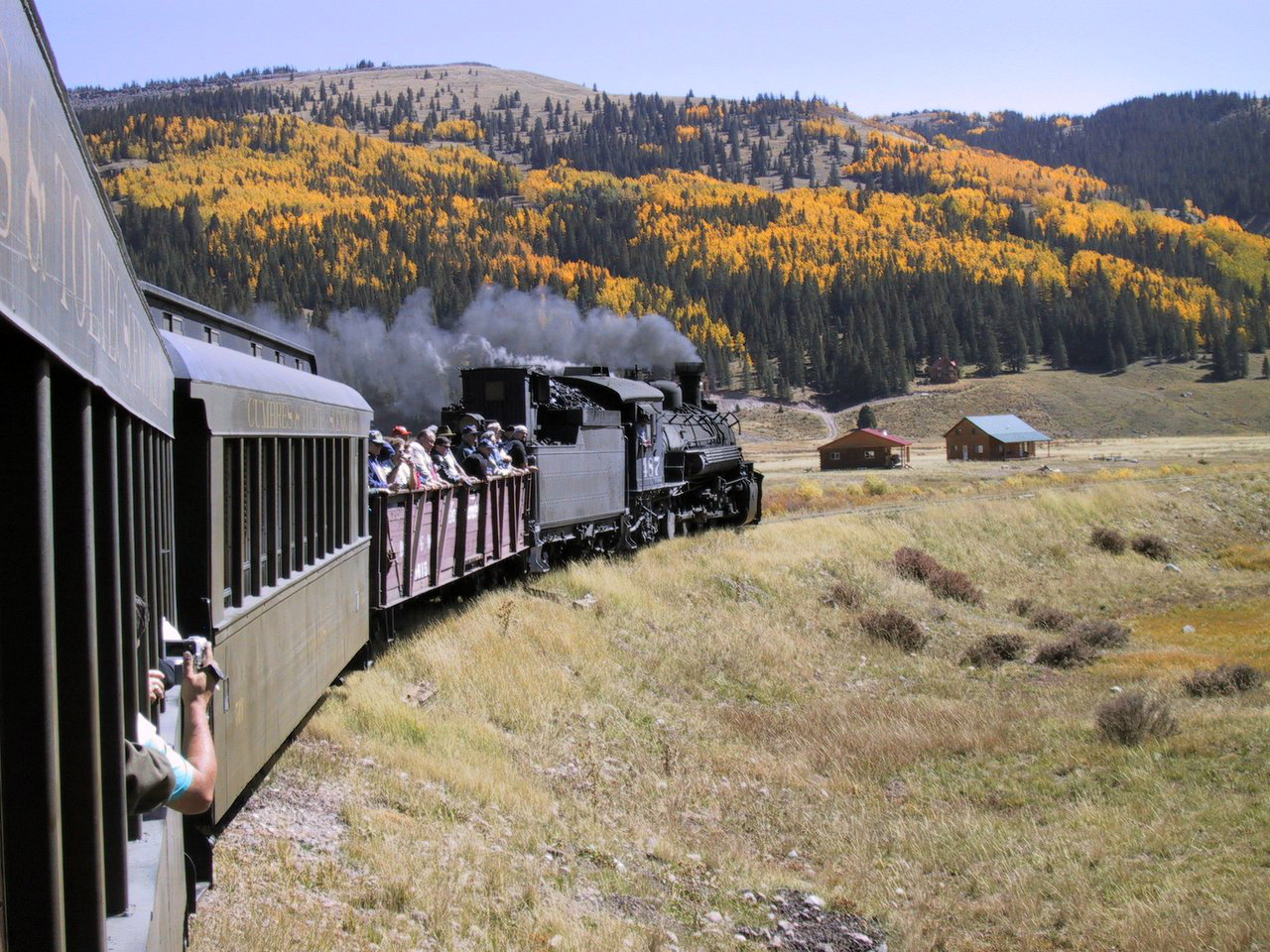 Cumbres and Toltec Scenic Railroad